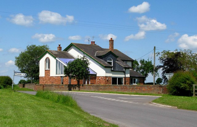 Pickhill Station Former station on the dismantled route of the Leeds Northern Railway.